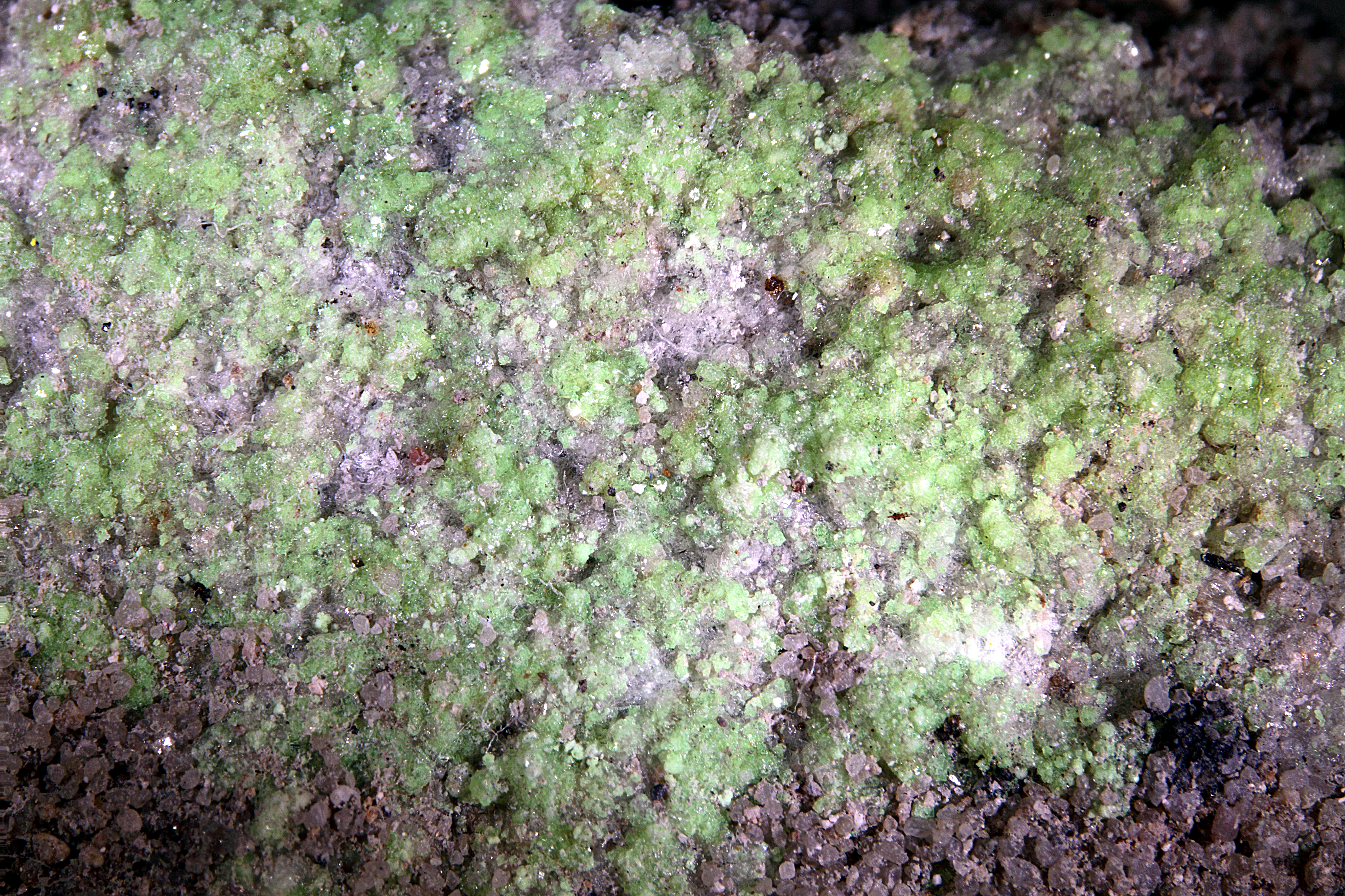 Green, indistinct crystals of andersonite from D-Day Mine, Grand County, Utah, USA (Field of view: 23 mm)